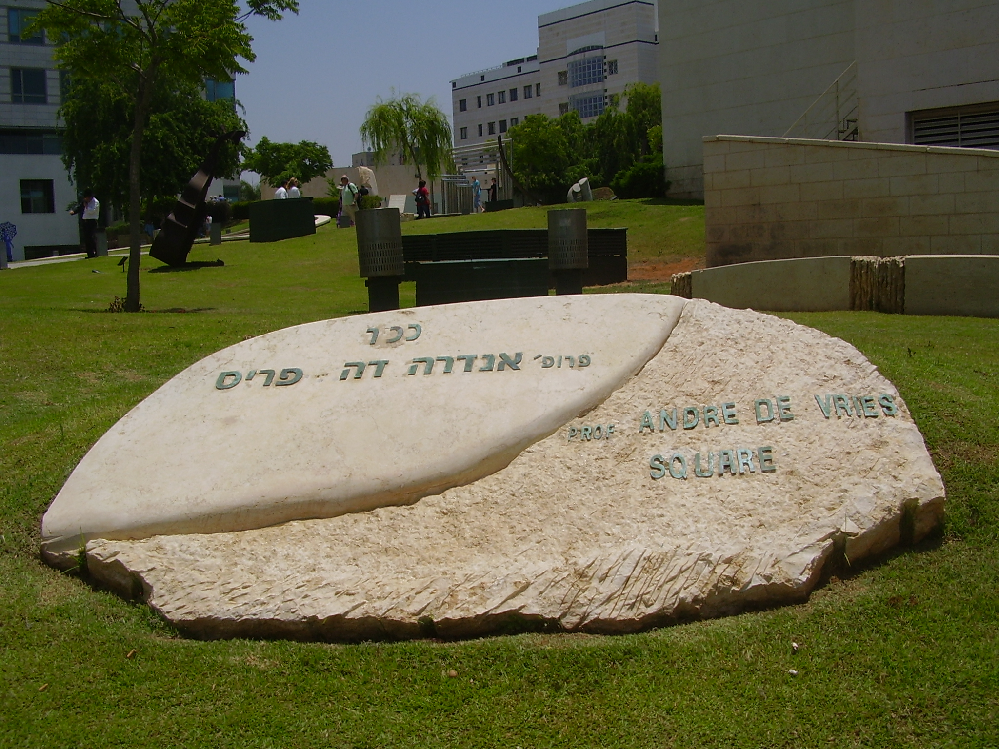 Prof. Andre de vries square in Beilinson medical center, Israel